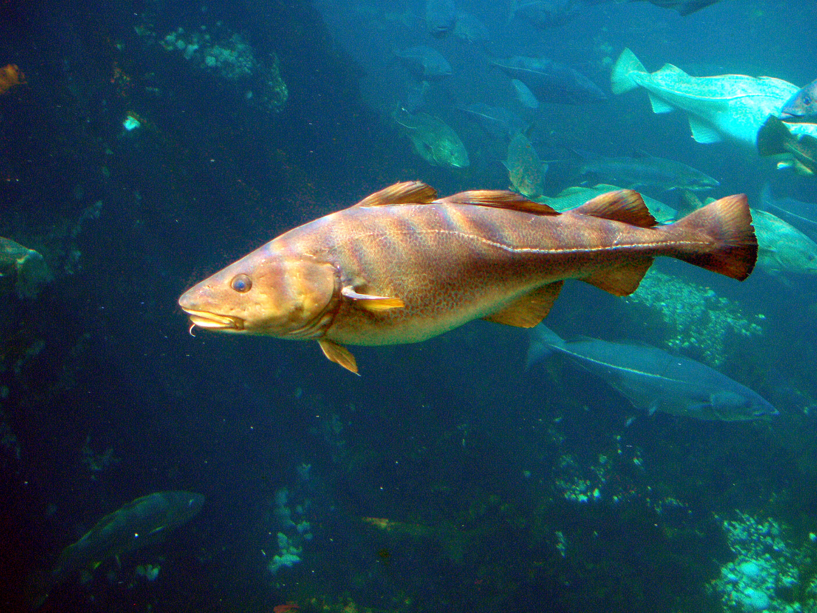 Cod, Gadus morhua, taken thru glas at Atlanterhavsparken, Ålesund, Norway